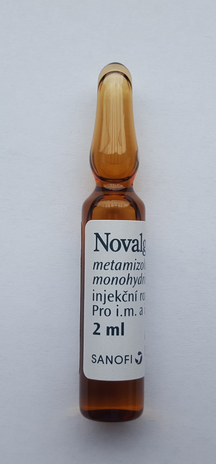 metamizole 500mg/1ml vial